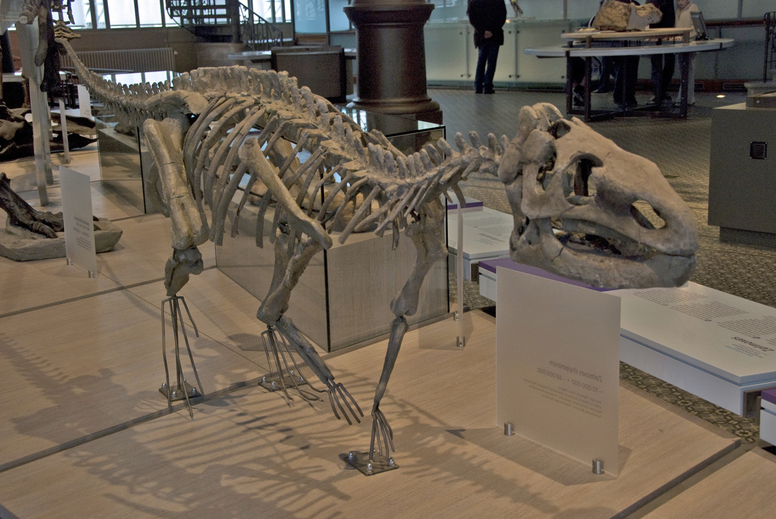 Replica of Zalmoxes shqiperorum at Brussels